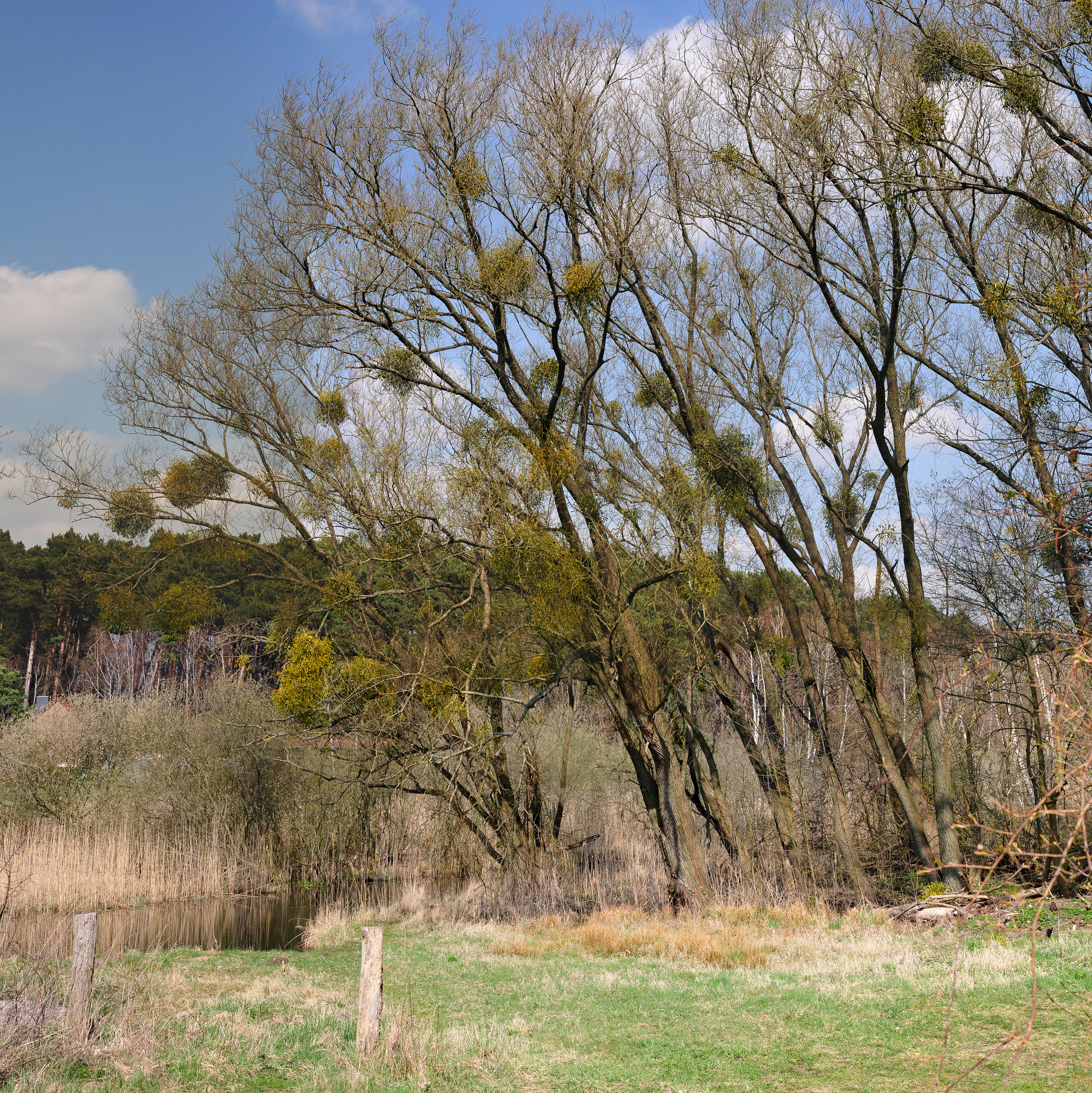 some Trees with viscum